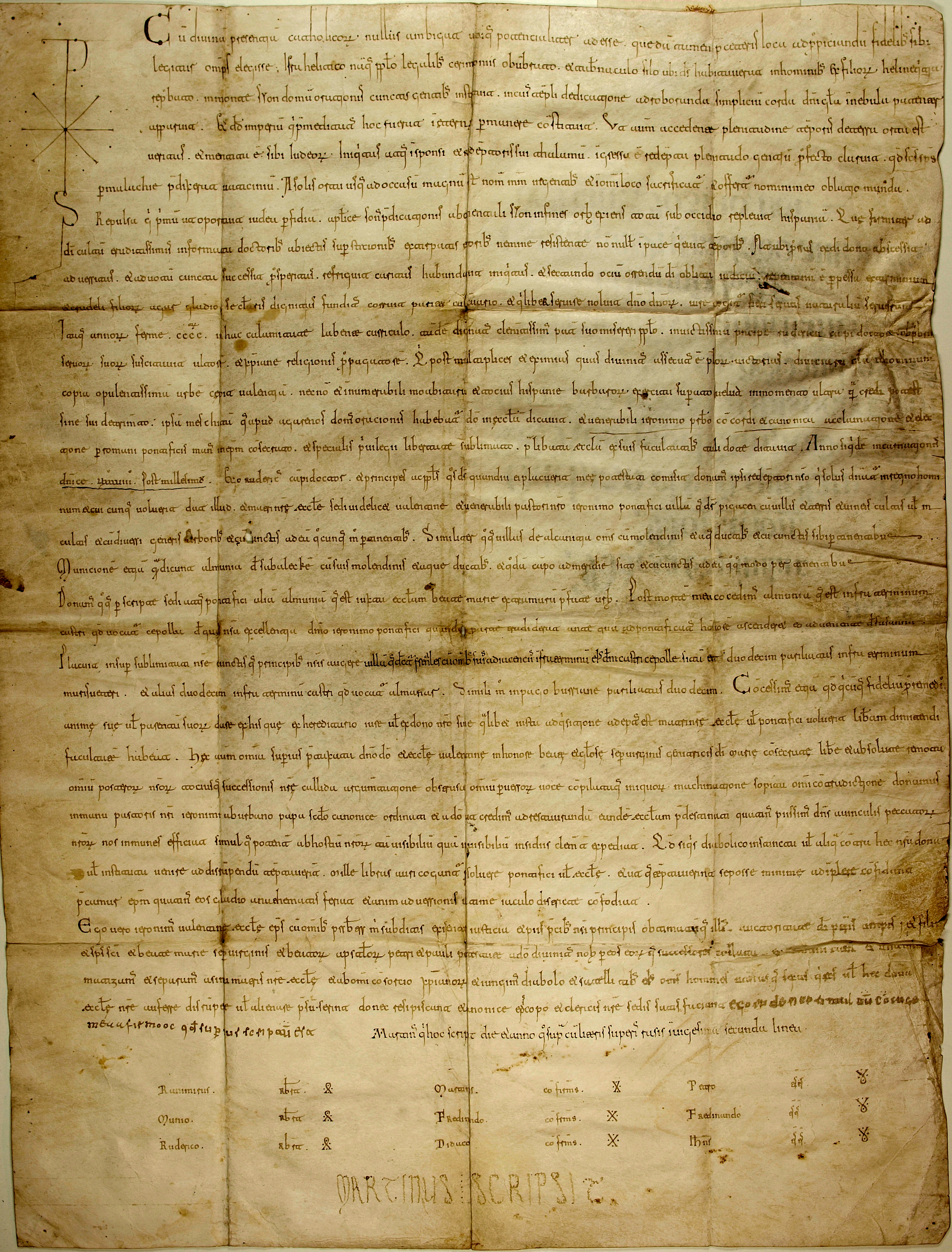 Document about Rodrigo Díaz, [also] called El Cid, that [reflects that he] makes a donation to the Cathedral of Valencia. [The o]riginal [is] in [the] Archive of the Cathedral of Salamanca, box 43, list 2, number 72. It reads in Latin: ego ruderico, "I, Rodrigo".